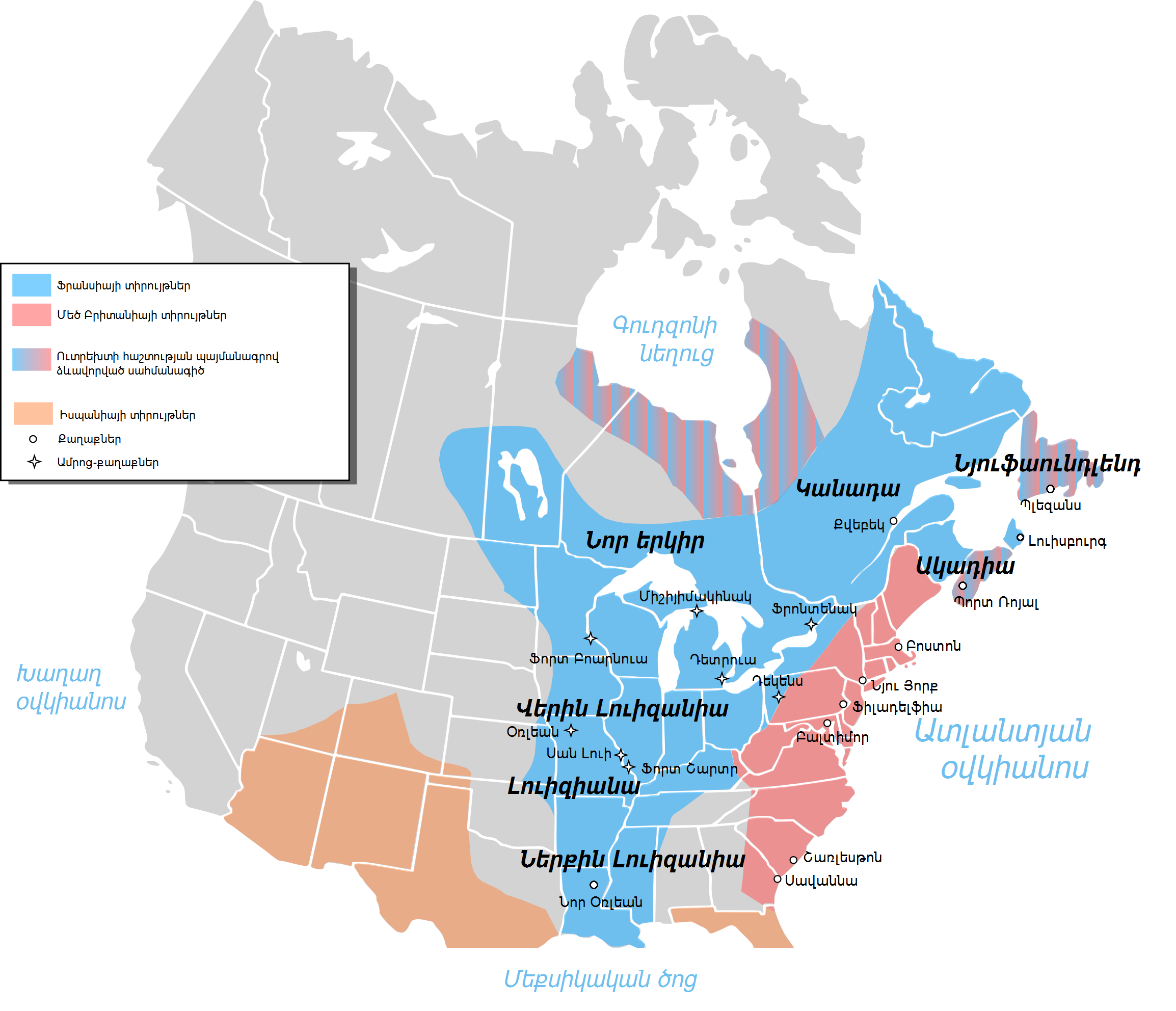 Nouvelle-France map